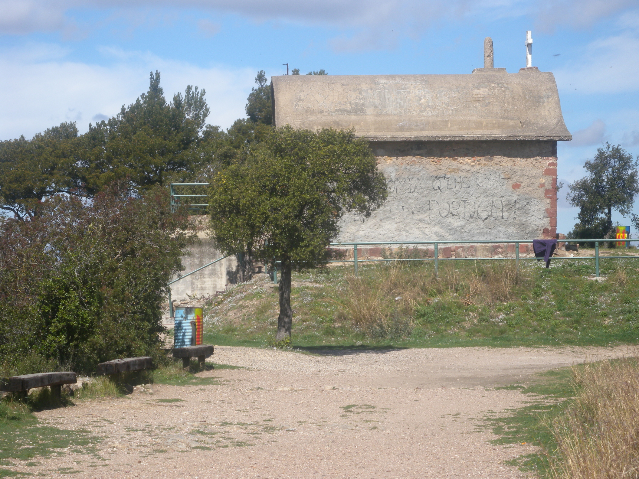 Ermita de San Antoni above the top of Montpedros